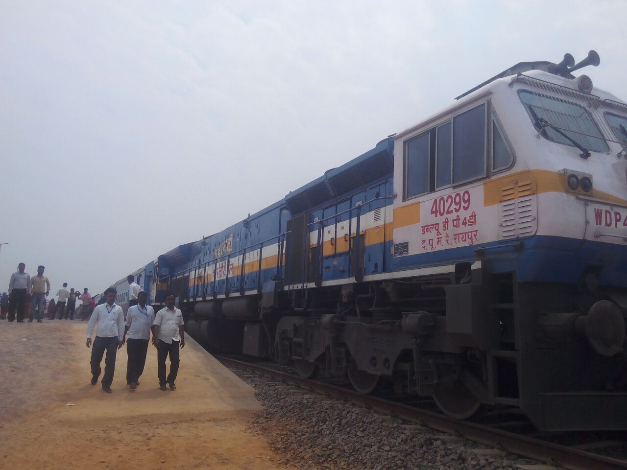 created page